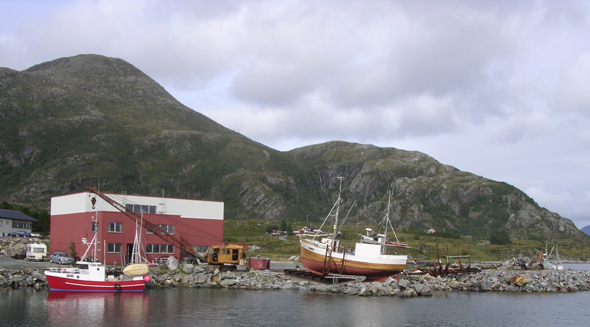 From the harbour by the ferrylanding at Tomma